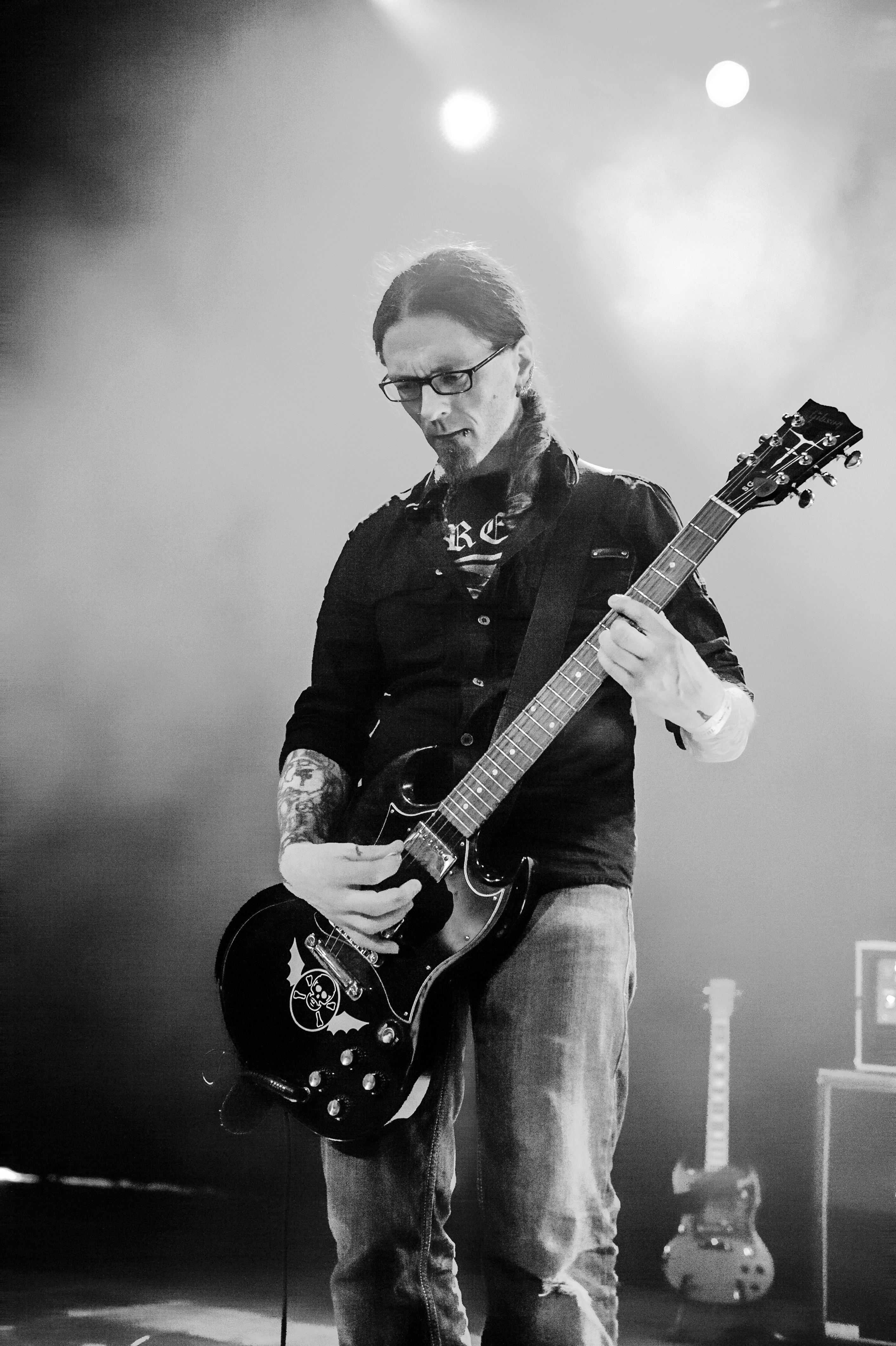 Ewigheim; Amphi festival 2016